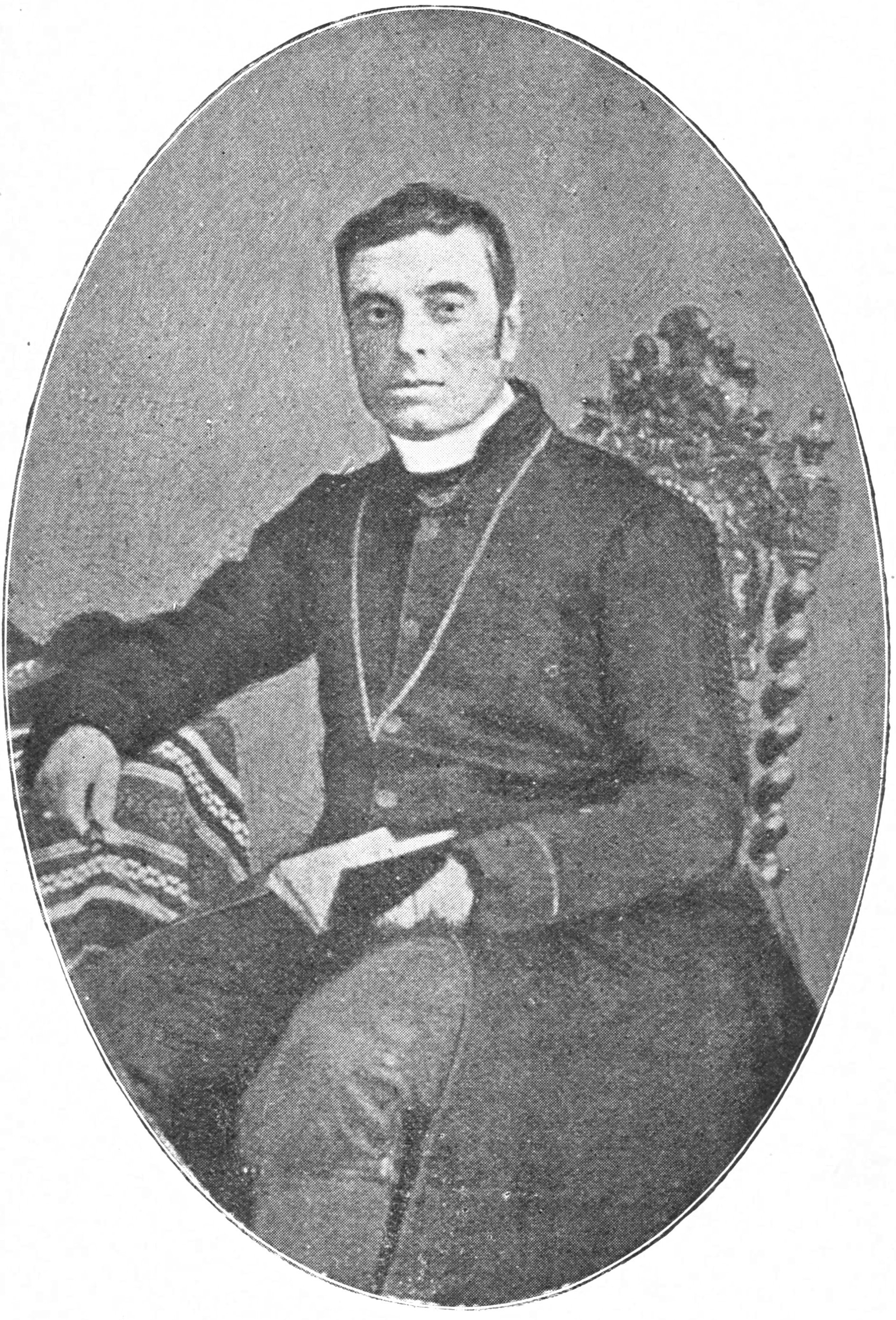 Cardinal Camillo di Pietro, p. 143 Historical accounts of Lisbon college